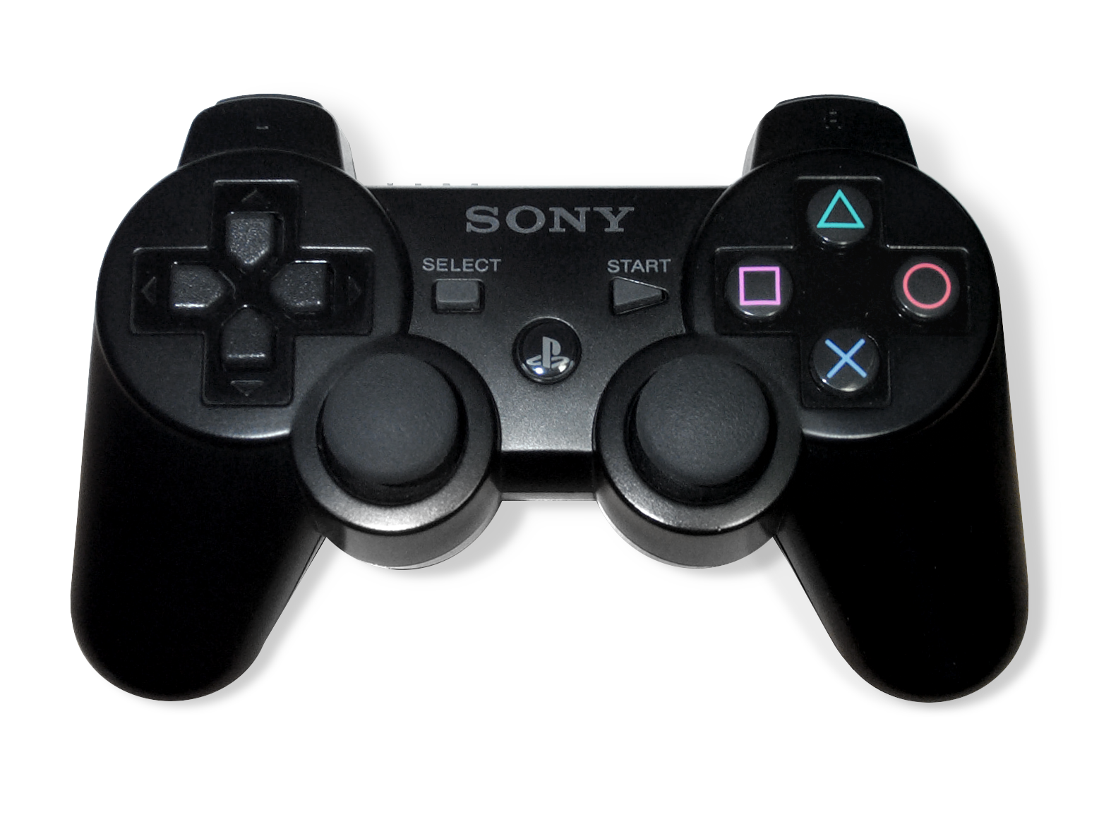 Sony DualShock 3 wireless controller